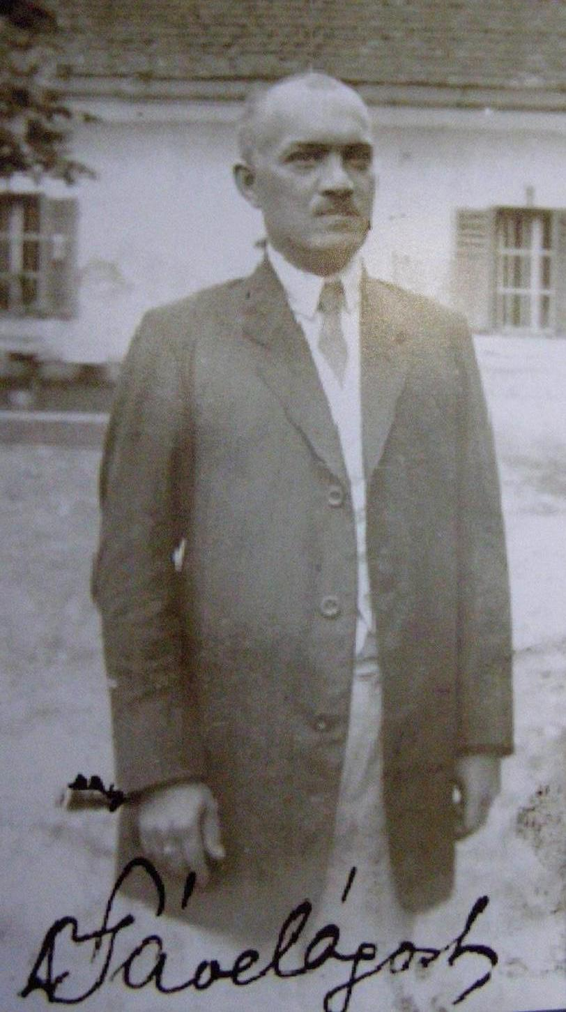 Ágoston Pável in advance of his house in Laafeld